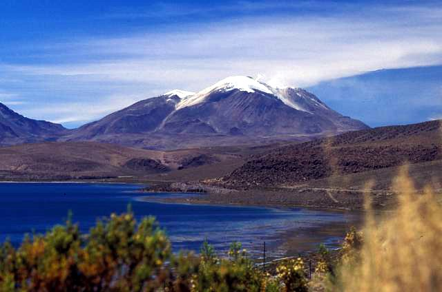 Guallatiri volcano in Chile Photo by Lee Siebert, 2004 (Smithsonian Institution). Smithsonian Institution is administered by the U.S. government. Photos taken by Smithsonian Institution's employees are thus without restriction. (confirmed by Mr. Edward Venzke from Smithsonian Institution)